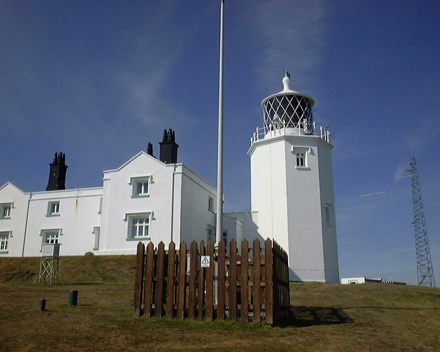 Lizard Lighthouse. Lizard Lighthouse eastern tower, oldest mainland lighthouse in Cornwall